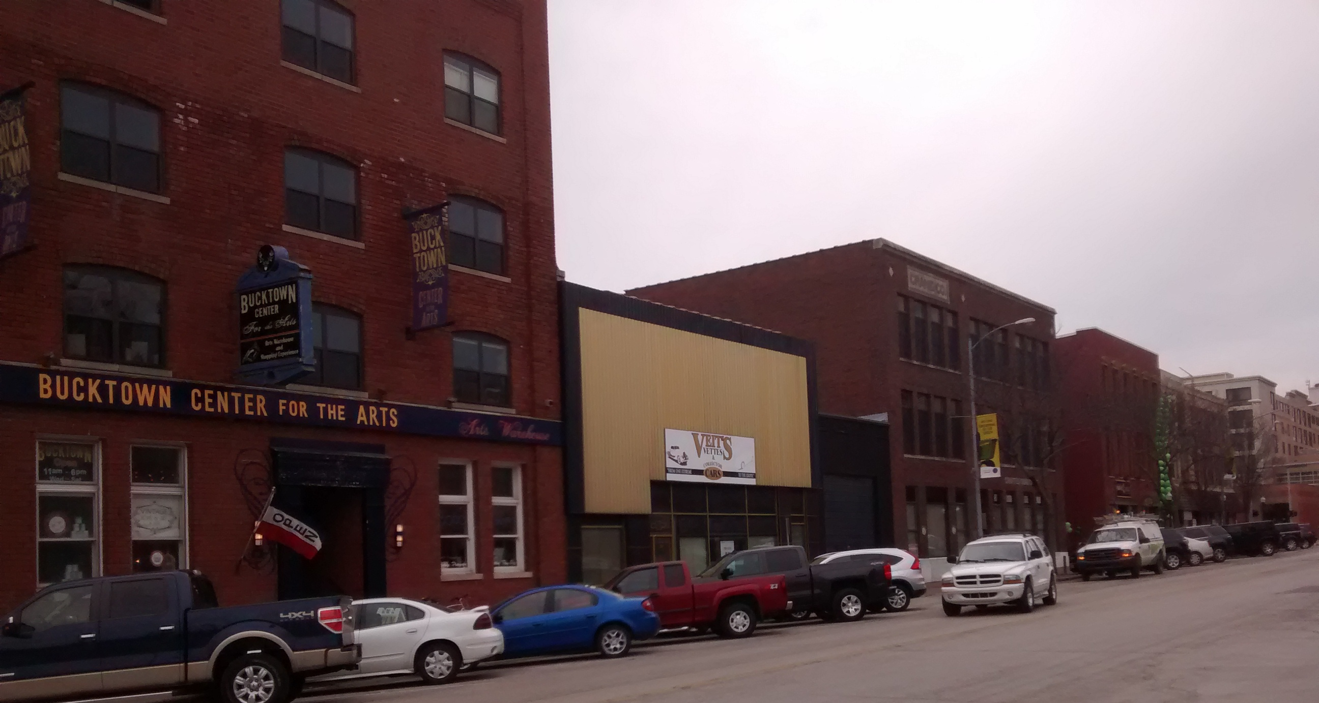 A street in Bucktown, Davenport, including the Bucktown Center for the Arts. The buildings were included in the Davenport Motor Row and Industrial Historic District in 2019.